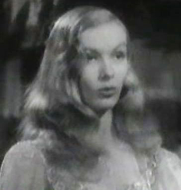 Screenshot of Veronica Lake from the trailer for the film I Married a Witch